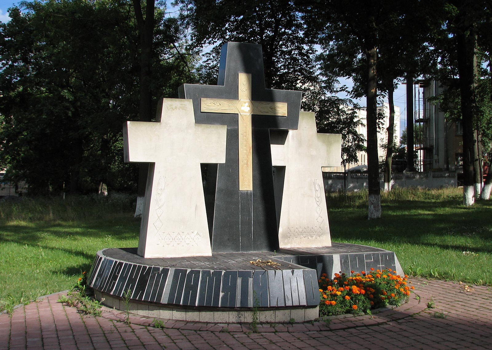 Memorial for the victims of the Soviet terror of 1937–1938 in Vinnytsia, Ukraine